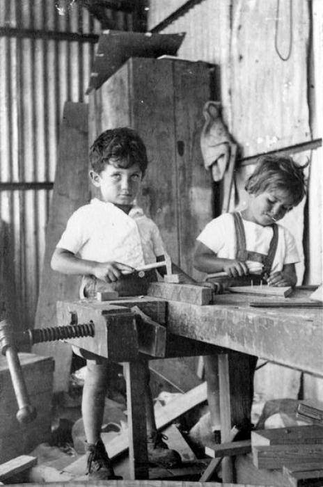 Ein Hahoresh, Education in Israel